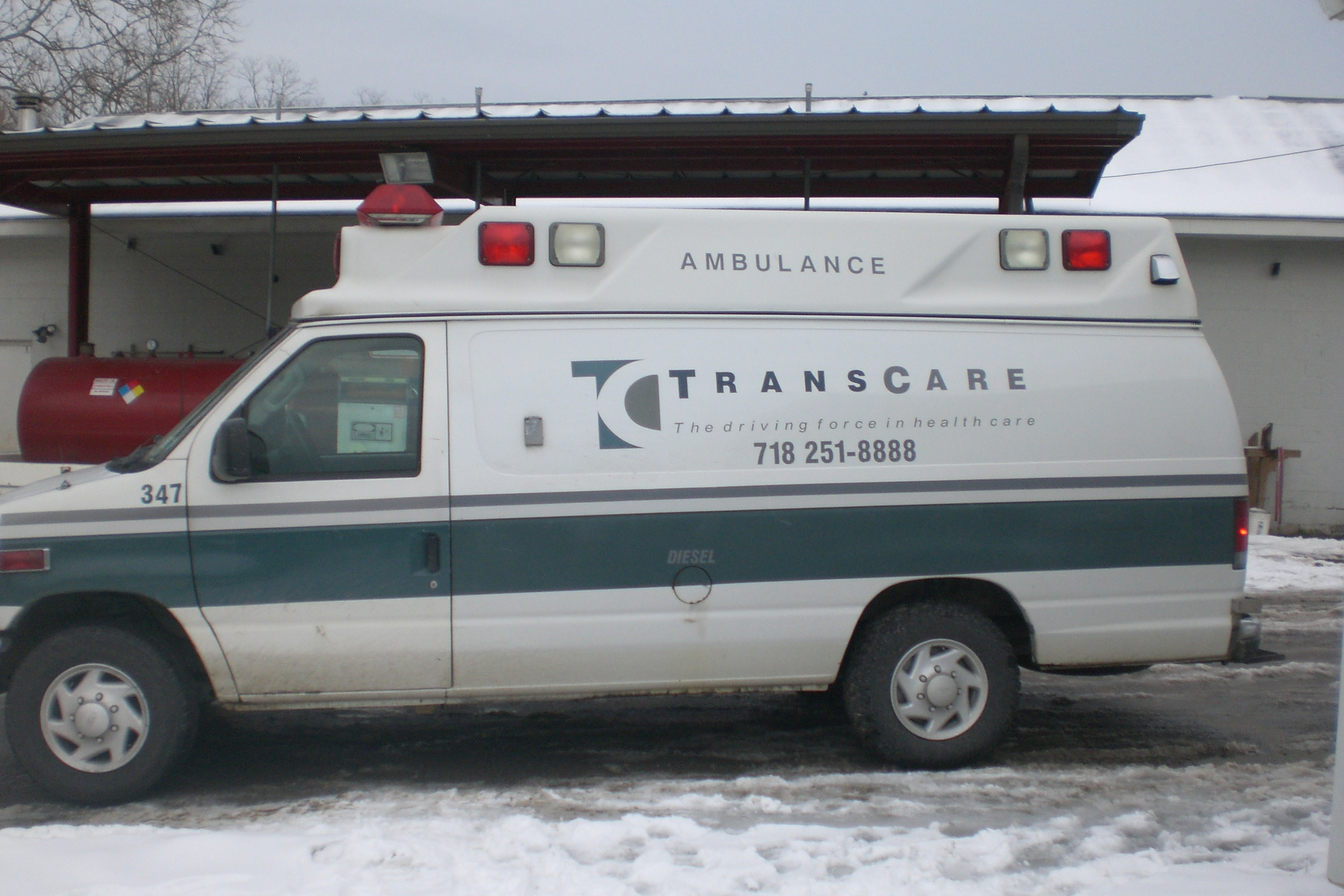 Picture of an ambulance owned and operated by Transcare EMS outside their station in Beekman, New York, callsign 347.